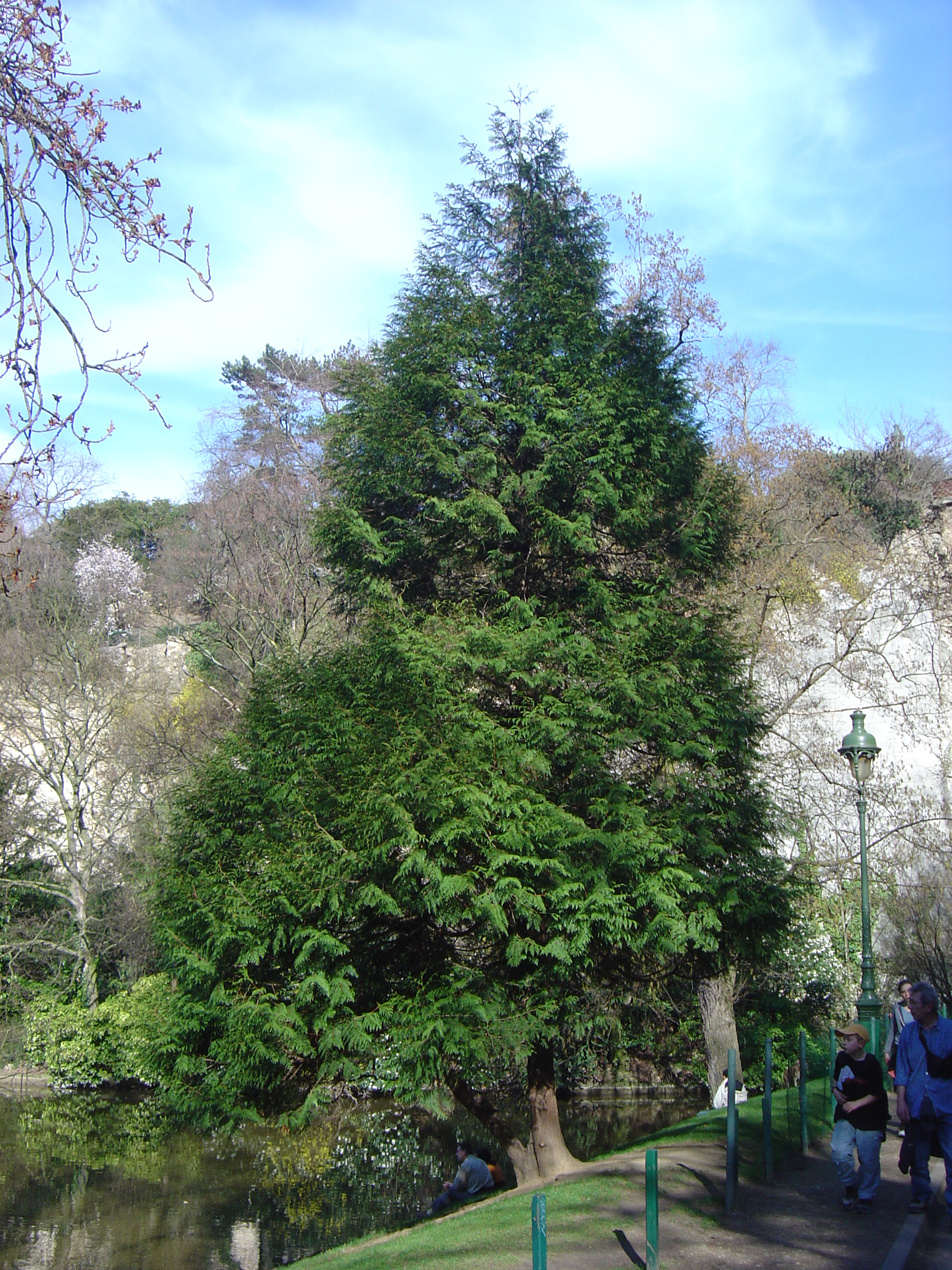 Thuja plicata trees from the Buttes Chaumont, Paris